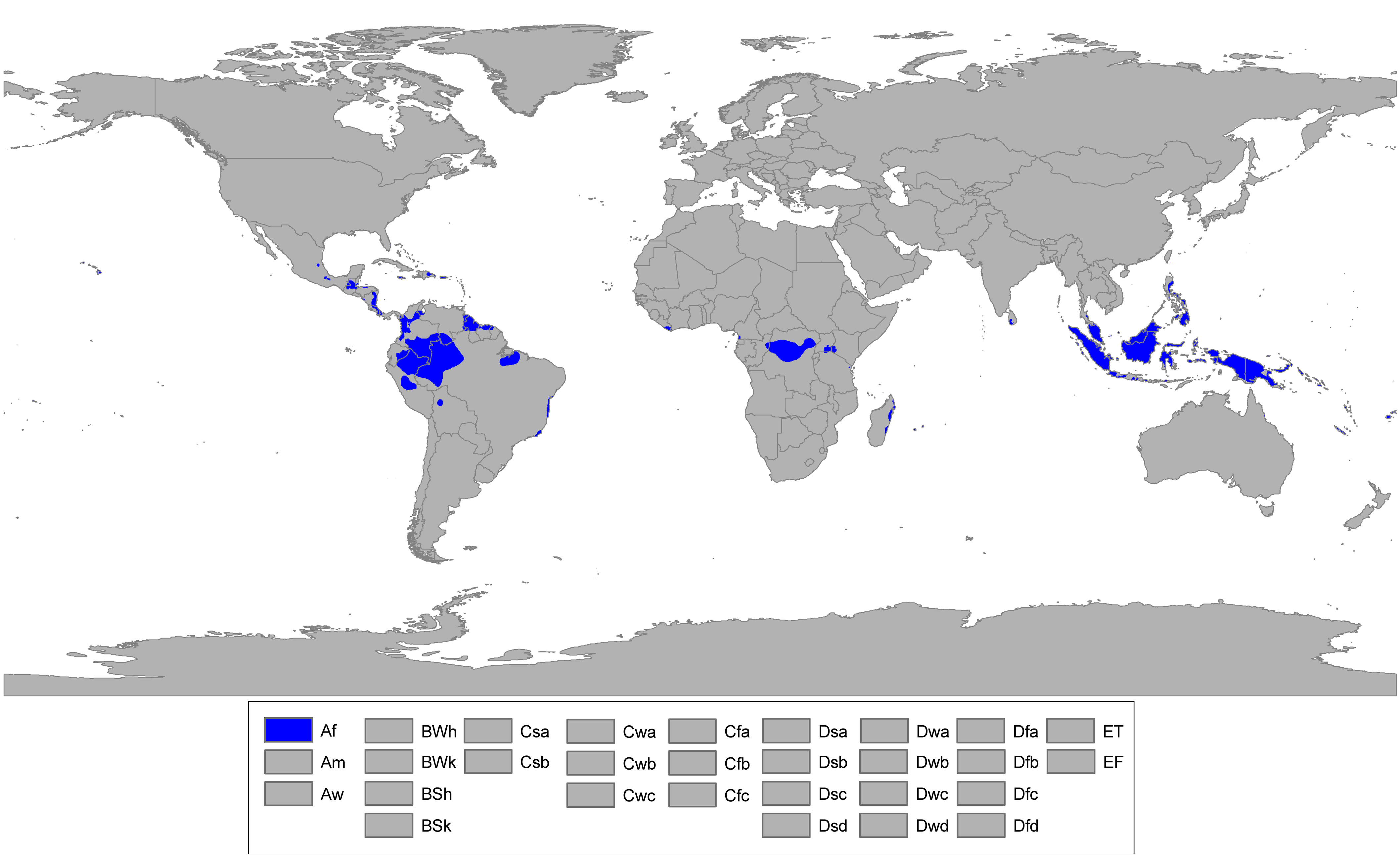 Updated world map of the Köppen-Geiger climate classification. Tropical rainforest climate (Af)